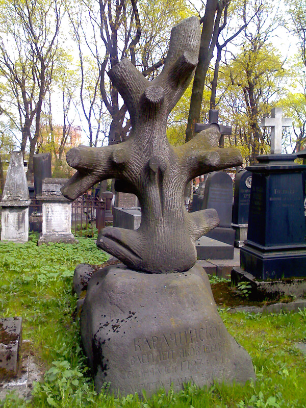 Donskoy monastery in Moscow